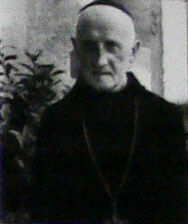 Raphael Walzer, Archabbot of Beuron Archabbey und Congregation, +1966